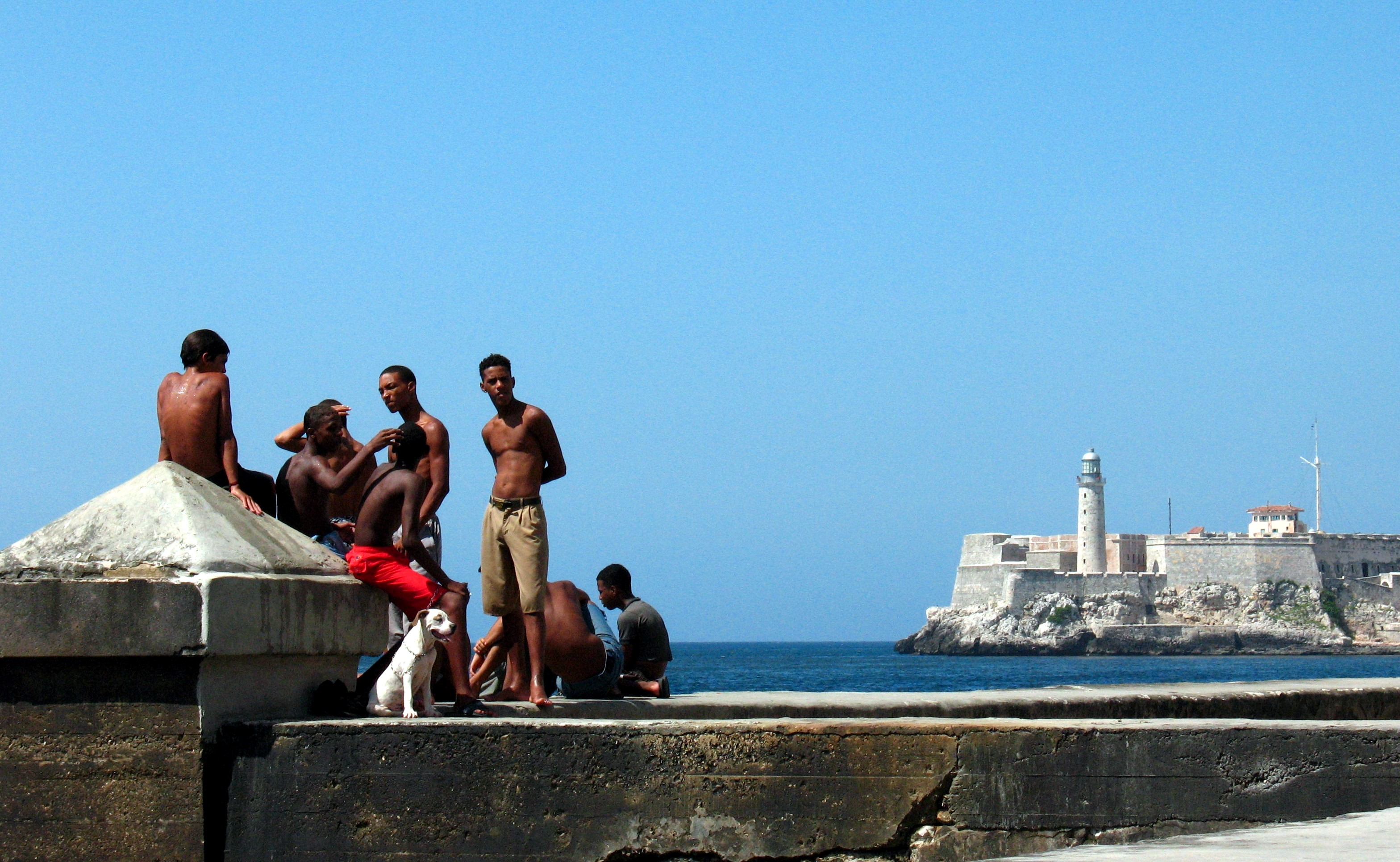 Kids enjoying the Cuba´s sun in the Malecon of Havana